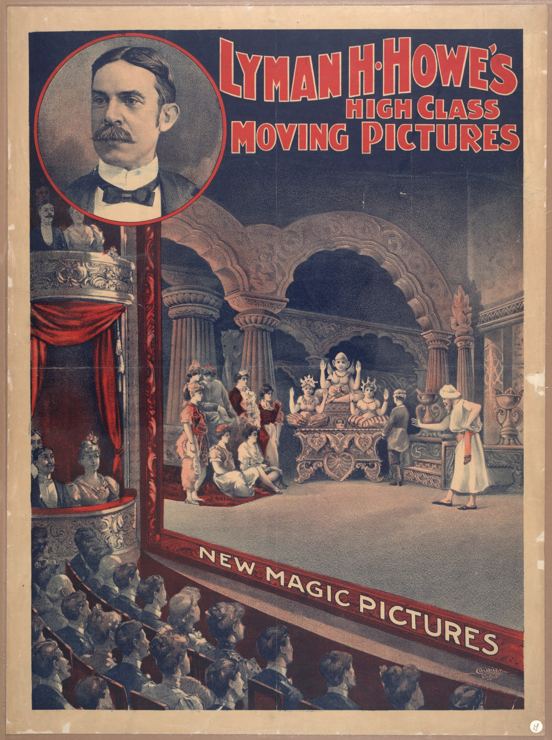 Title: Lyman H. Howe's high class moving pictures - new magic pictures / Courier Co. litho., Buffalo, N.Y. Abstract/medium: 1 print (poster) : chromolithograph.